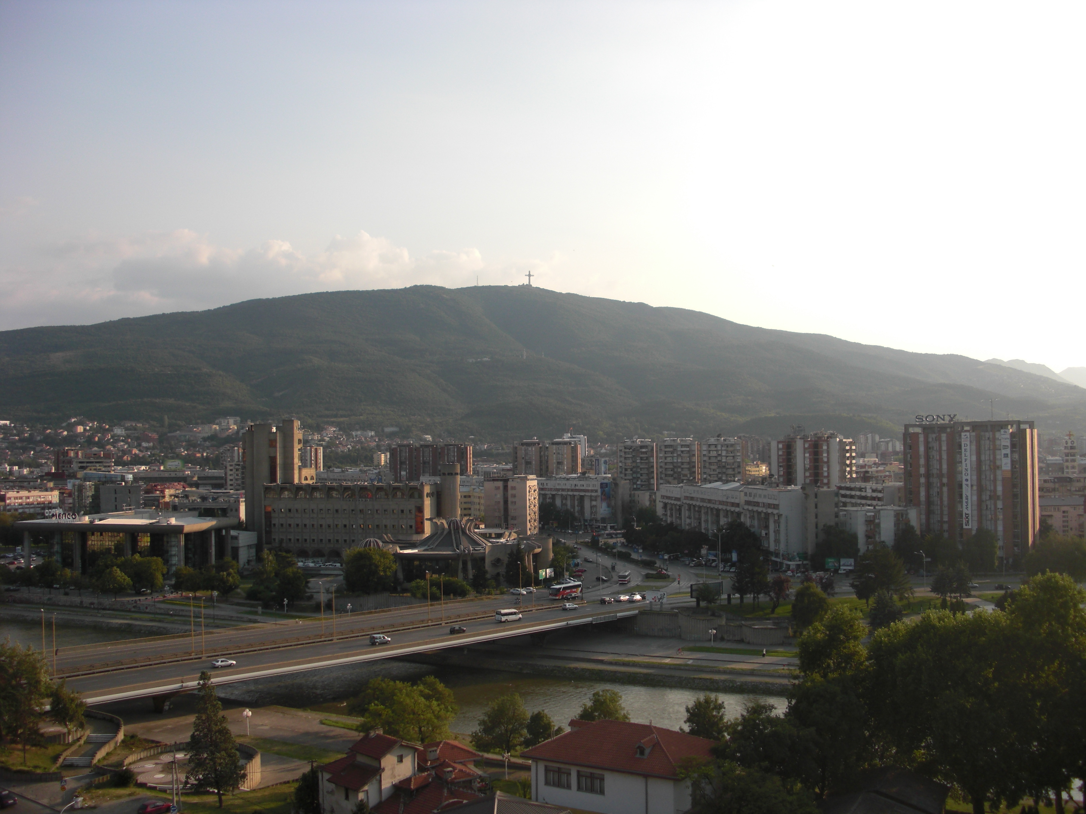 City of Skopje, capital of the Republic of Macedonia